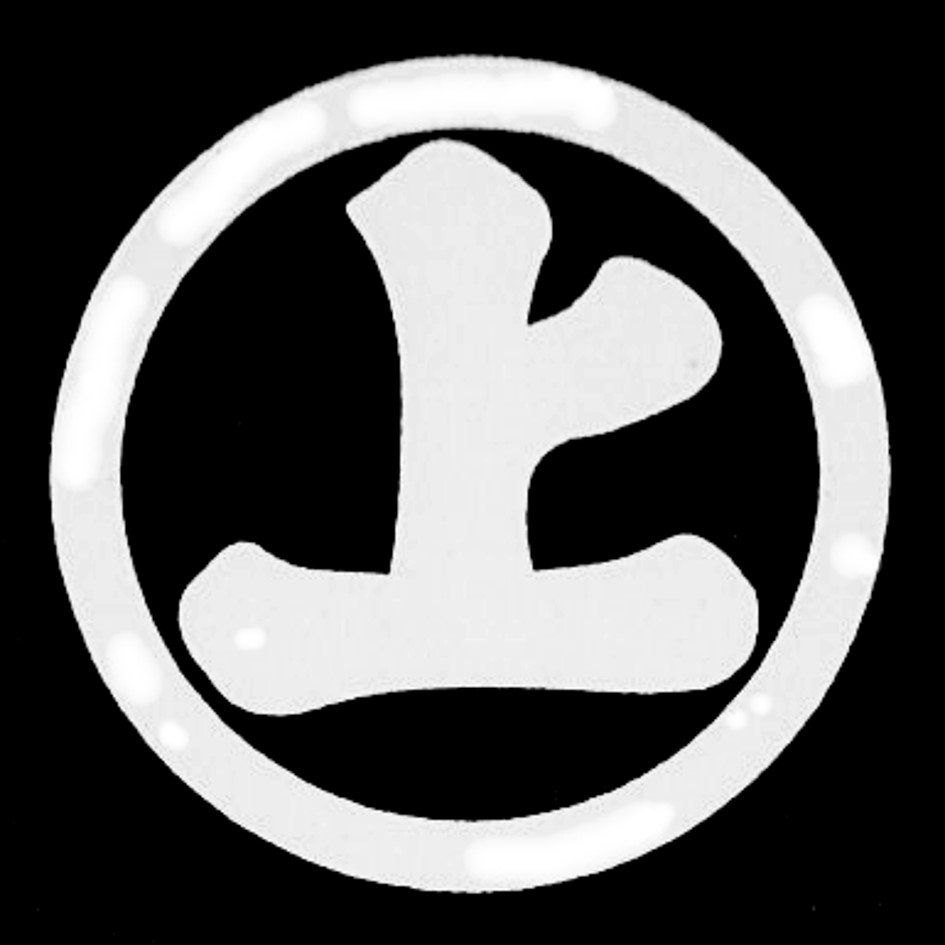 Crest of Murakami family